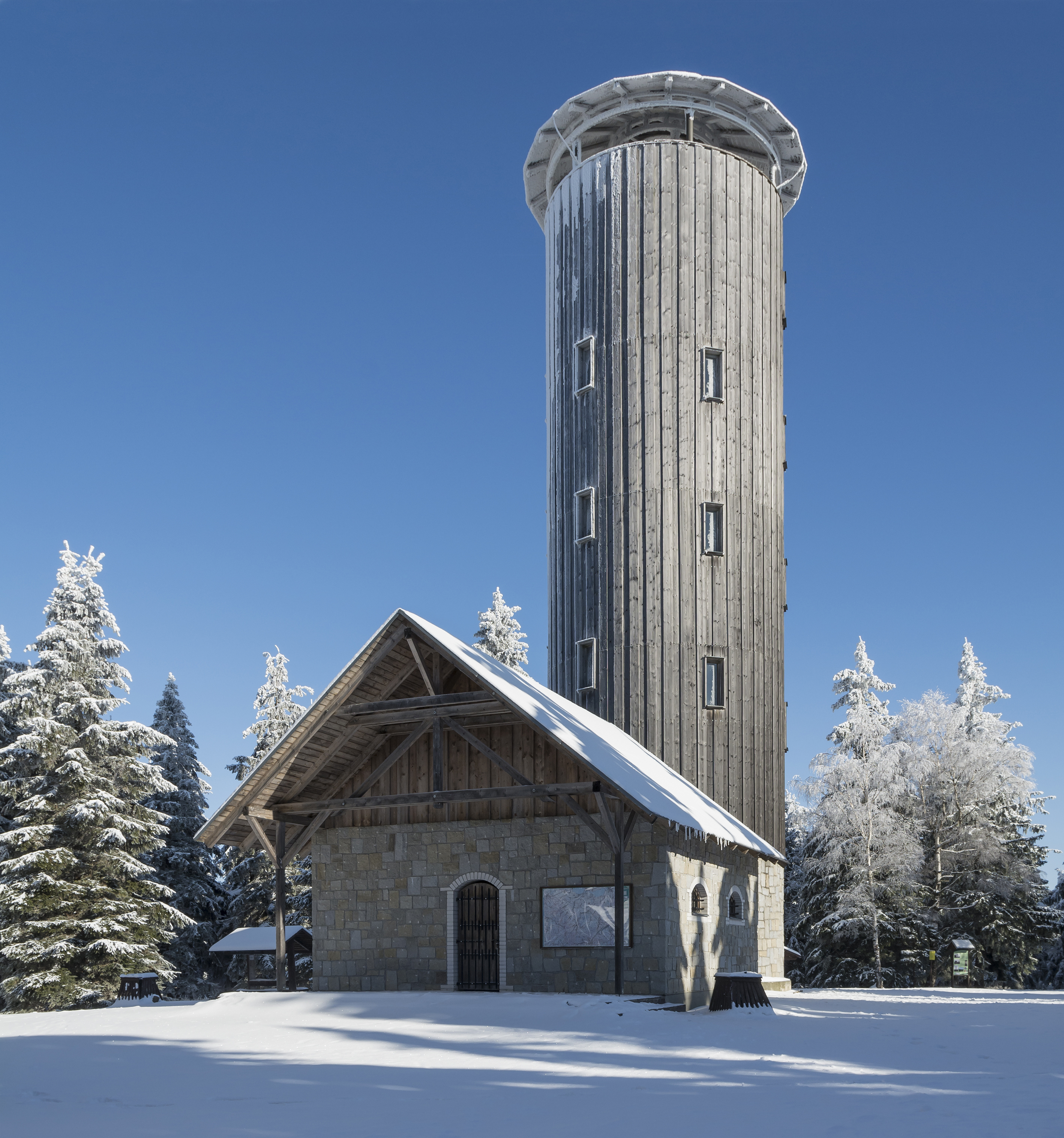 Lookout tower on Borówkowa, exposure from SW